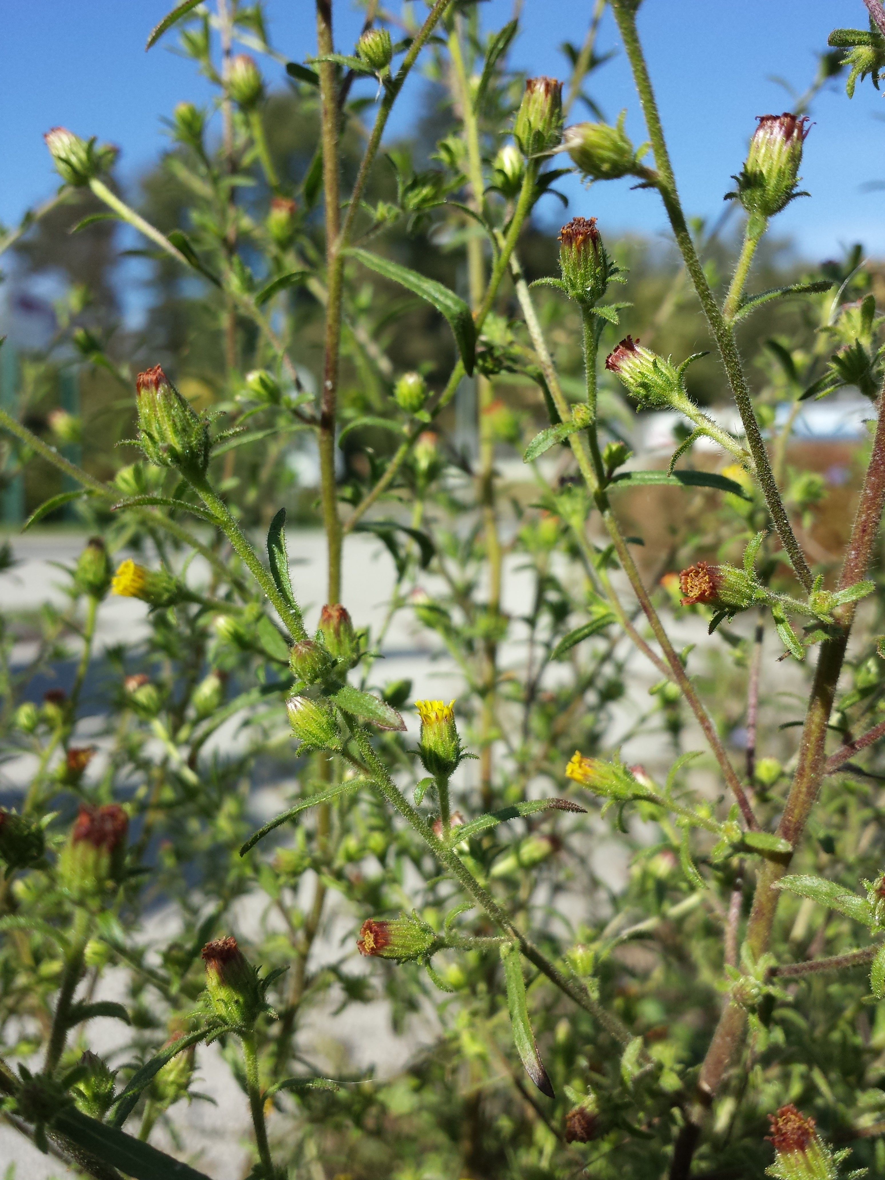 Branches with flower baskets Taxonym: Dittrichia graveolens ss Fischer et al. EfÖLS 2008 ISBN 978-3-85474-187-9 Location: Korneuburg, Lower Austria - ca. 170 m a.s.l. Habitat: gap in street surface